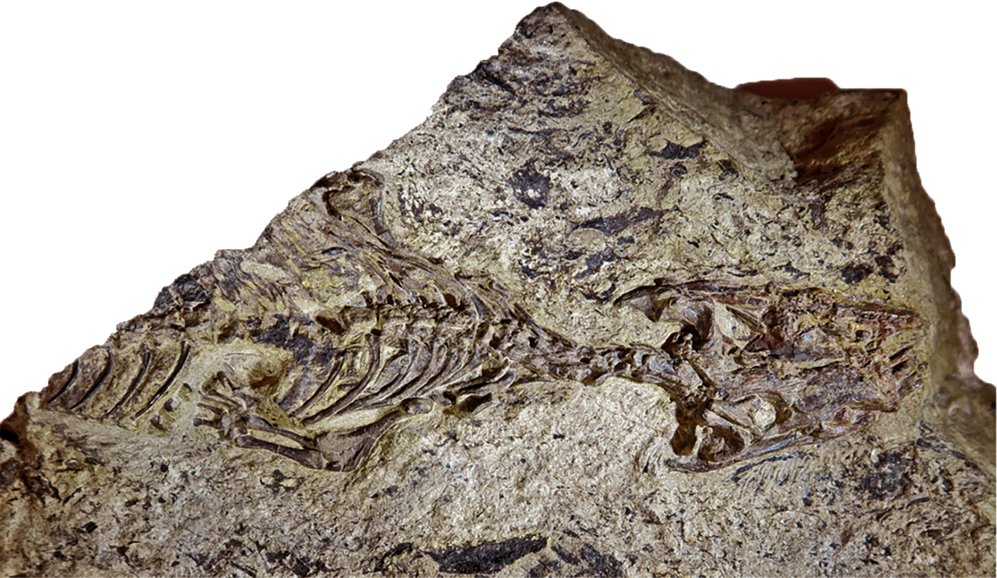 Megachirella whole